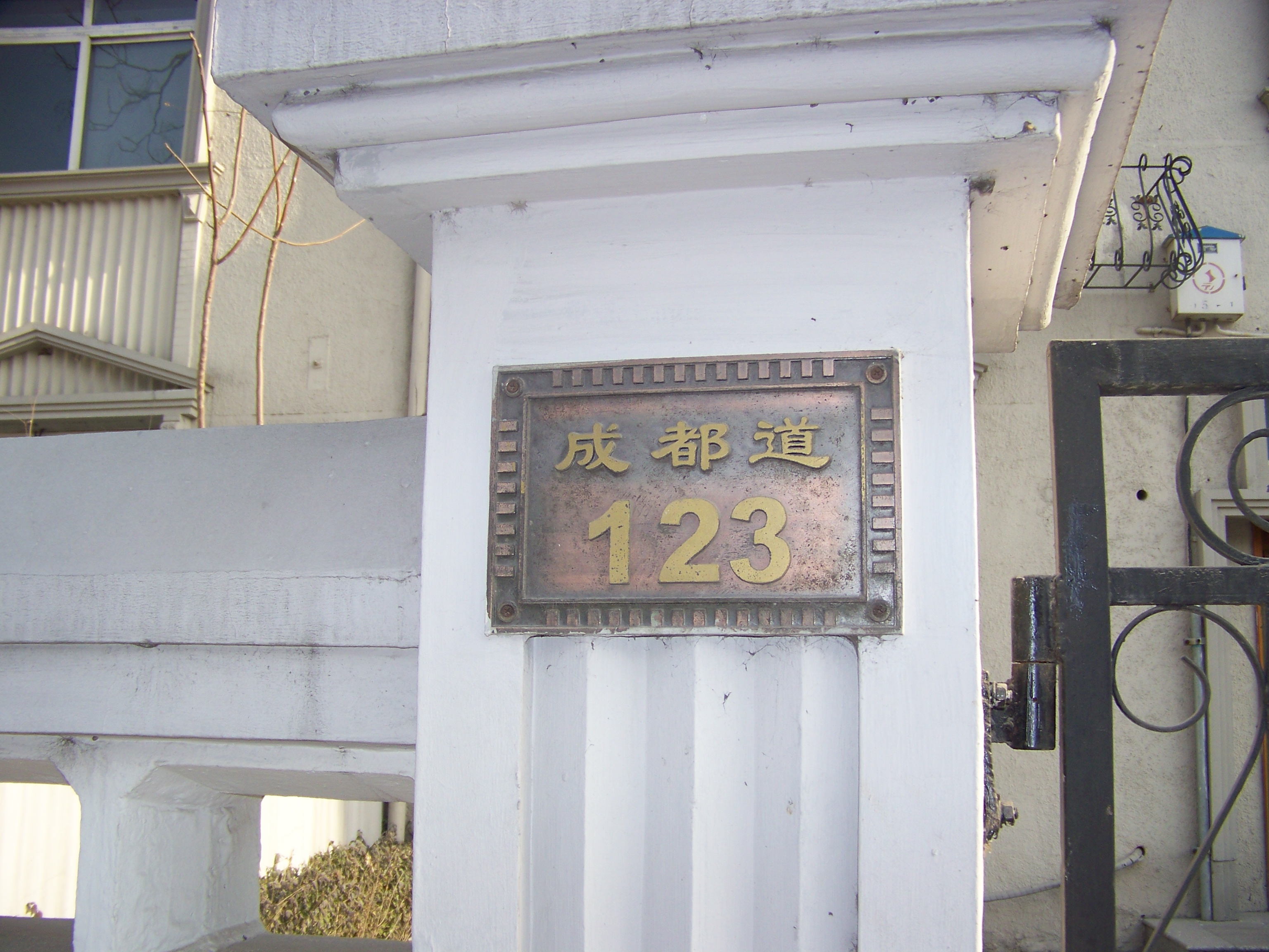 Chengdu Dao No. 123